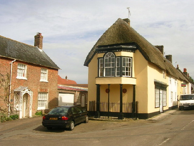 Street in Puddletown.